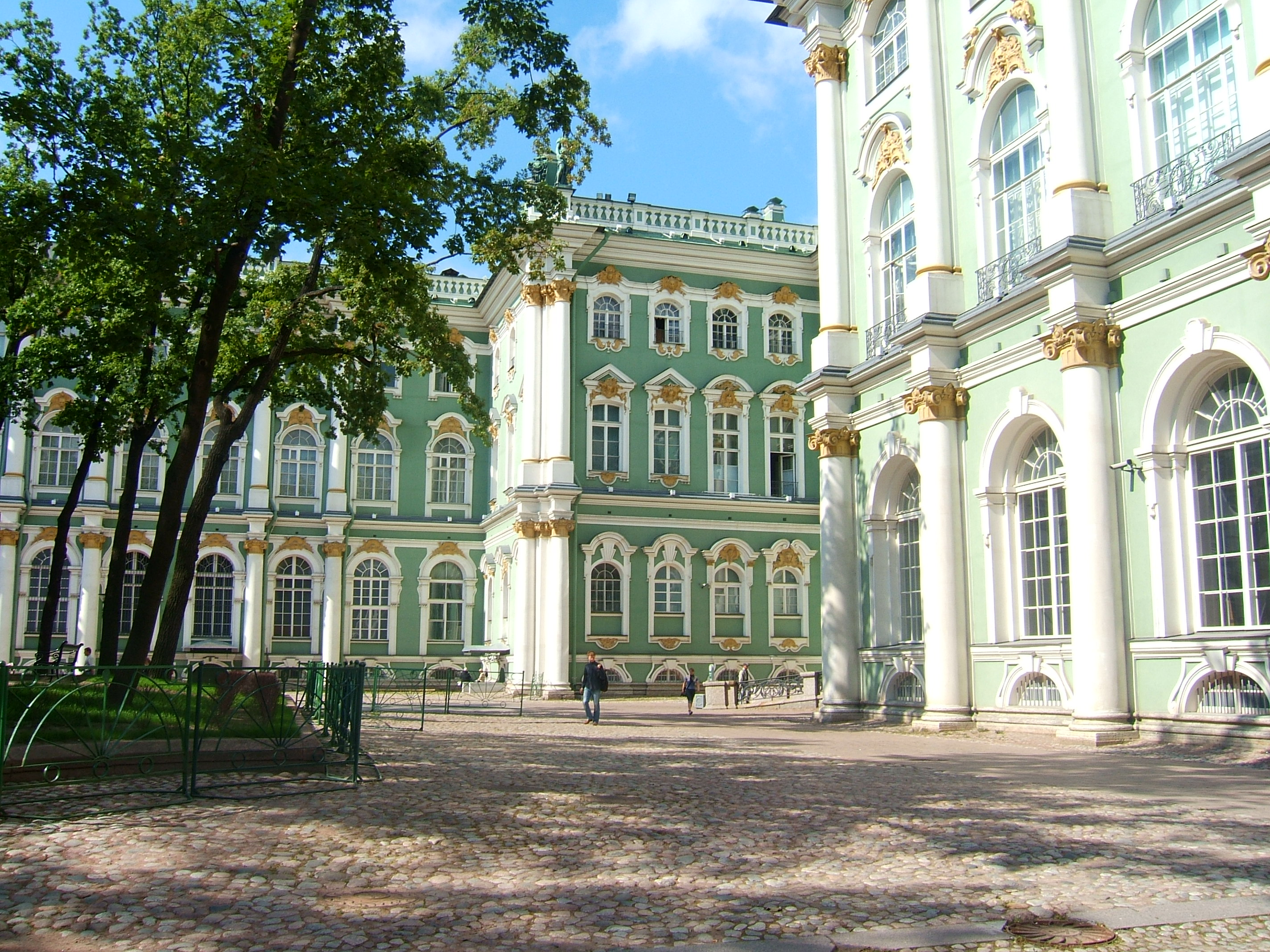 Inside the Winter Palace...finally it's sunny!!!!